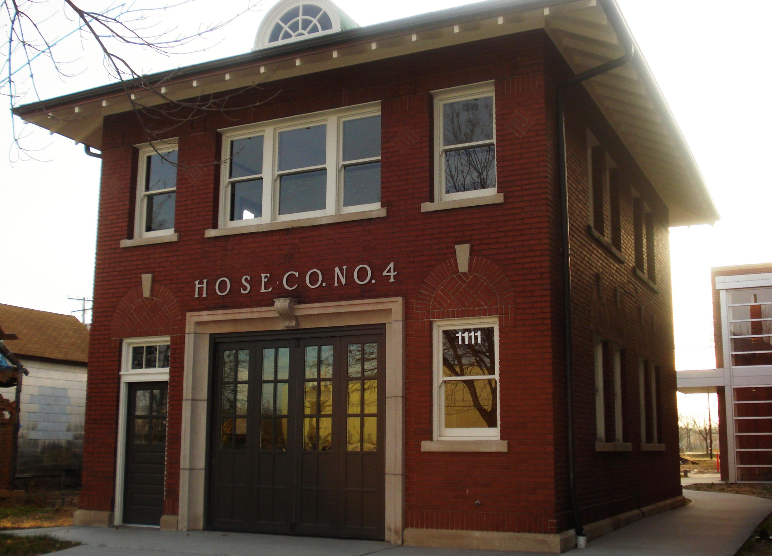 Building on the NRHP in Cedar Rapids, Iowa.